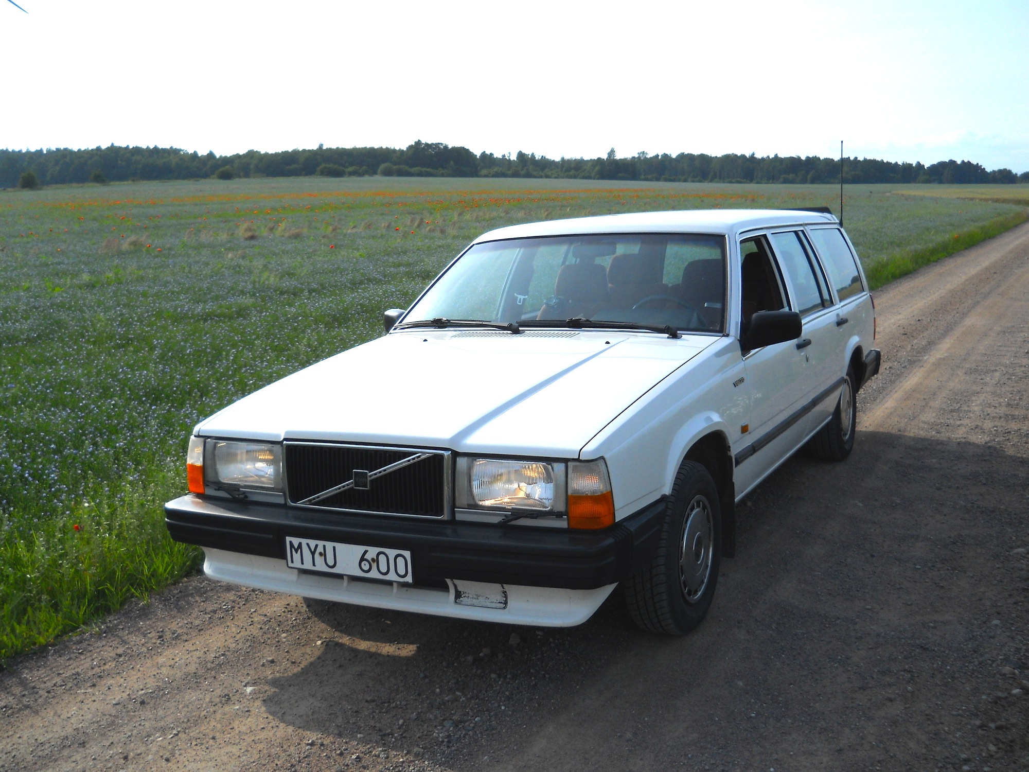 1987 Volvo 740 estate near Linköping, Sweden.